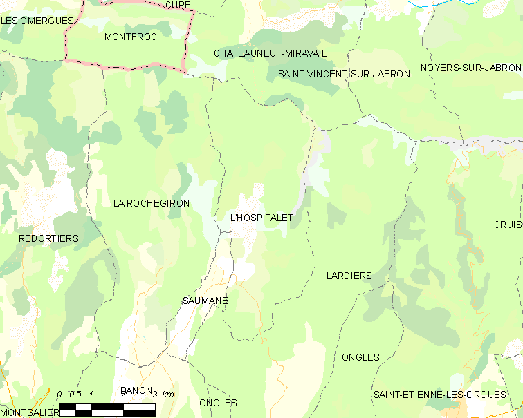 Map commune FR insee code 04095.png Légende